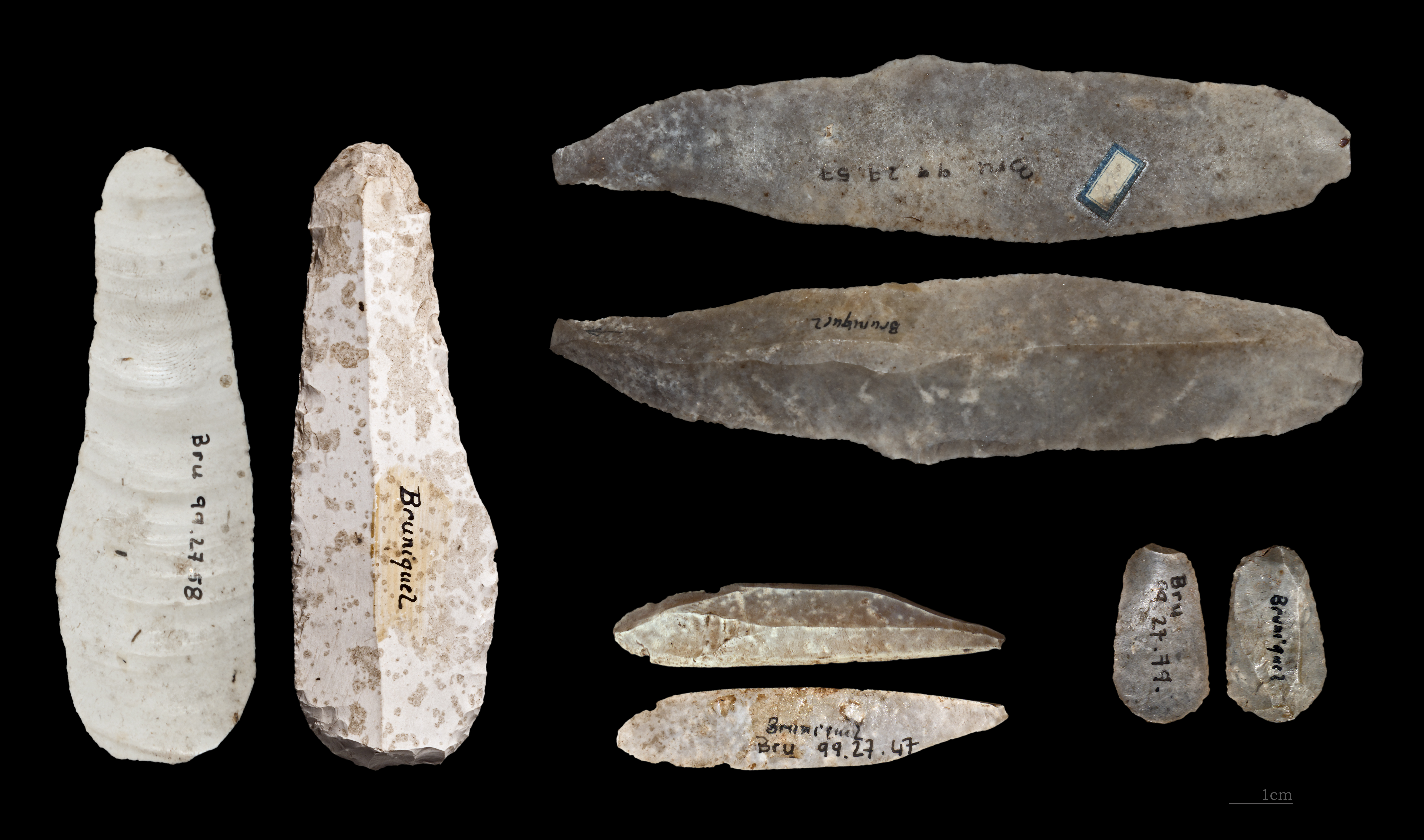 Lithic industry in flint – Both sides of 4 specimens Satge: Magdalenian Locality: Archaeological Site of the four rock shelters, Bruniquel's castle. Bruniquel, Tarn-et-Garonne – France. Excavation: Excavation and collection: Victor Brun 1867